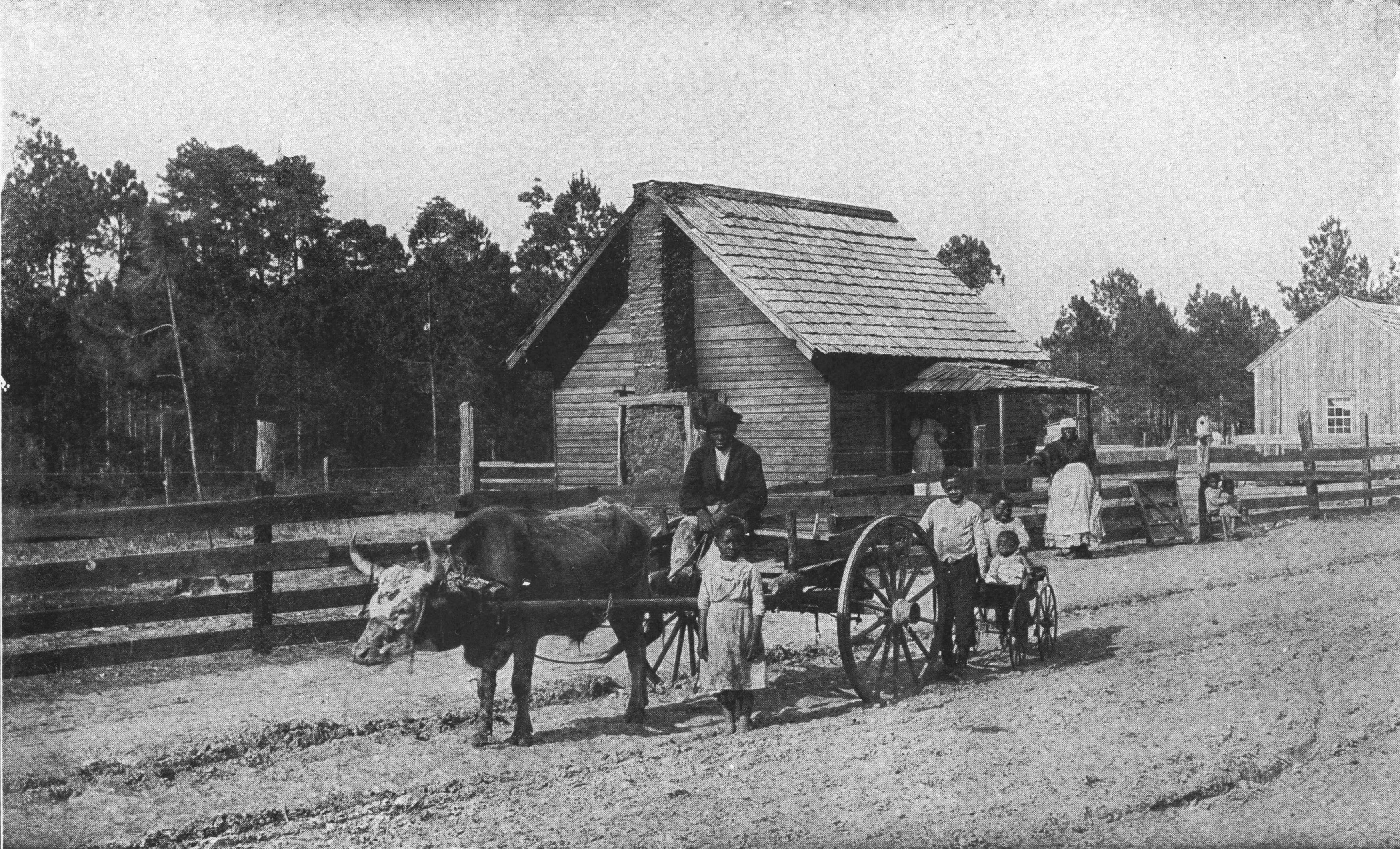 This is an image or page from The How and Why Library, a book first published in the United States in 1909. Location: The Little Black Children Who Lived in a "Zoo", between pages 30 and 31